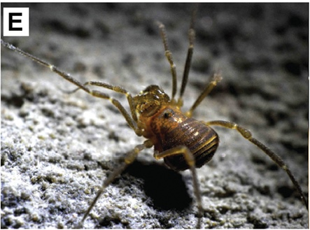 Travunioid harvestmen, Peltonychia leprieurii